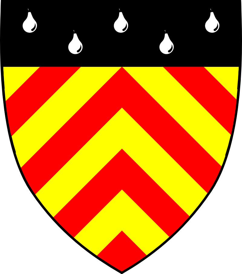 Description at en.wiki: made by me in Inkscape. Additional description by User:JackyR: Shield of Clare Hall, Cambridge.